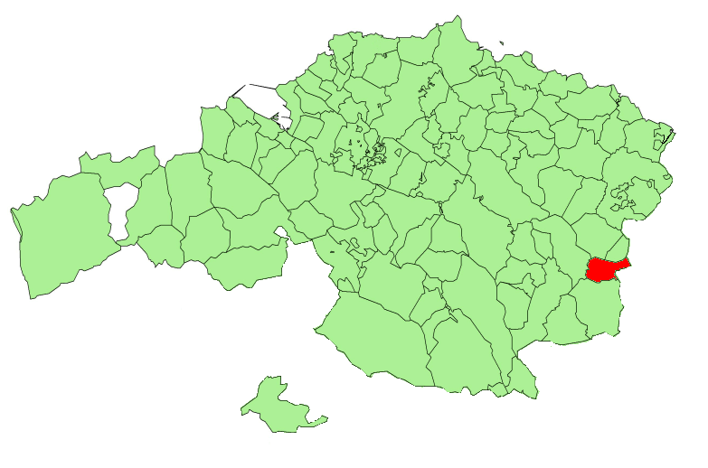 Zaldibar municipality in the province of Biscay